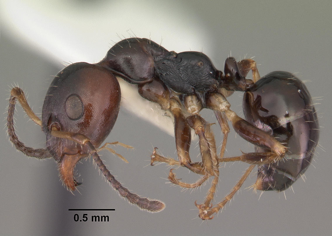 Profile view of ant Myrmecorhynchus emeryi specimen casent0010929.